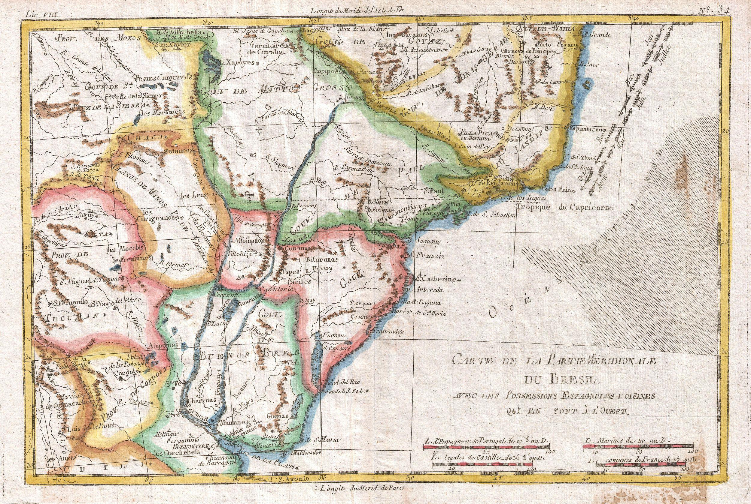 A fine example of Rigobert Bonne and G. Raynal’s 1780 map of southern Brazil, Uruguay, and northern Argentina, including Rio de Janeiro, Montevideo, and Buenos Aires. This map generally corresponds to modern day Minas Gerais, Sao Paulo, Parana, Santa Catarina, Rio Grande du Sol, Uruguay, Buenos Aires, Motto Grosso and Paraguay. Offers surprising detail of the interior considering that this region was largely unexplored when this map was drawn. Of course, much of this speculative, including the Laguna de Xarayes, a mytical lake at the northern terminus of the Paraguay River that was associated with the Earthly Paradise by early explores. Xarayes, named after a local indigenous group, was most likely a misinterpretation of the Pantanal flood plain during the rainy season. Drawn by R. Bonne for G. Raynal’s Atlas de Toutes les Parties Connues du Globe Terrestre, Dressé pour l'Histoire Philosophique et Politique des Établissemens et du Commerce des Européens dans les Deux Indes .